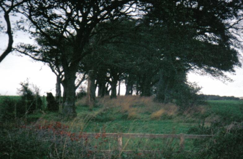 THe old lane running from near Townhead of Lambroughton down to the site of Lambroch Mill. 2006. Near Stewarton, Ayrshire.